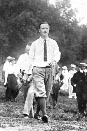 Jerome Travers, playing in the 1915 U.S. Open, which he won.